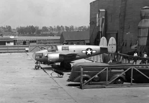 A U.S. Army Air Force Fairchild AT-21-FB Gunner aircraft (s/n 42-11742).